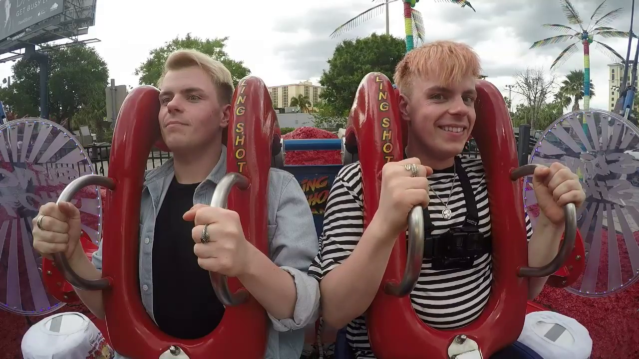 Twin YouTubers and radio presenters Niki and Sammy Albon on the Orlando Slingshot at the Magical Midway Thrill Park in May 2017